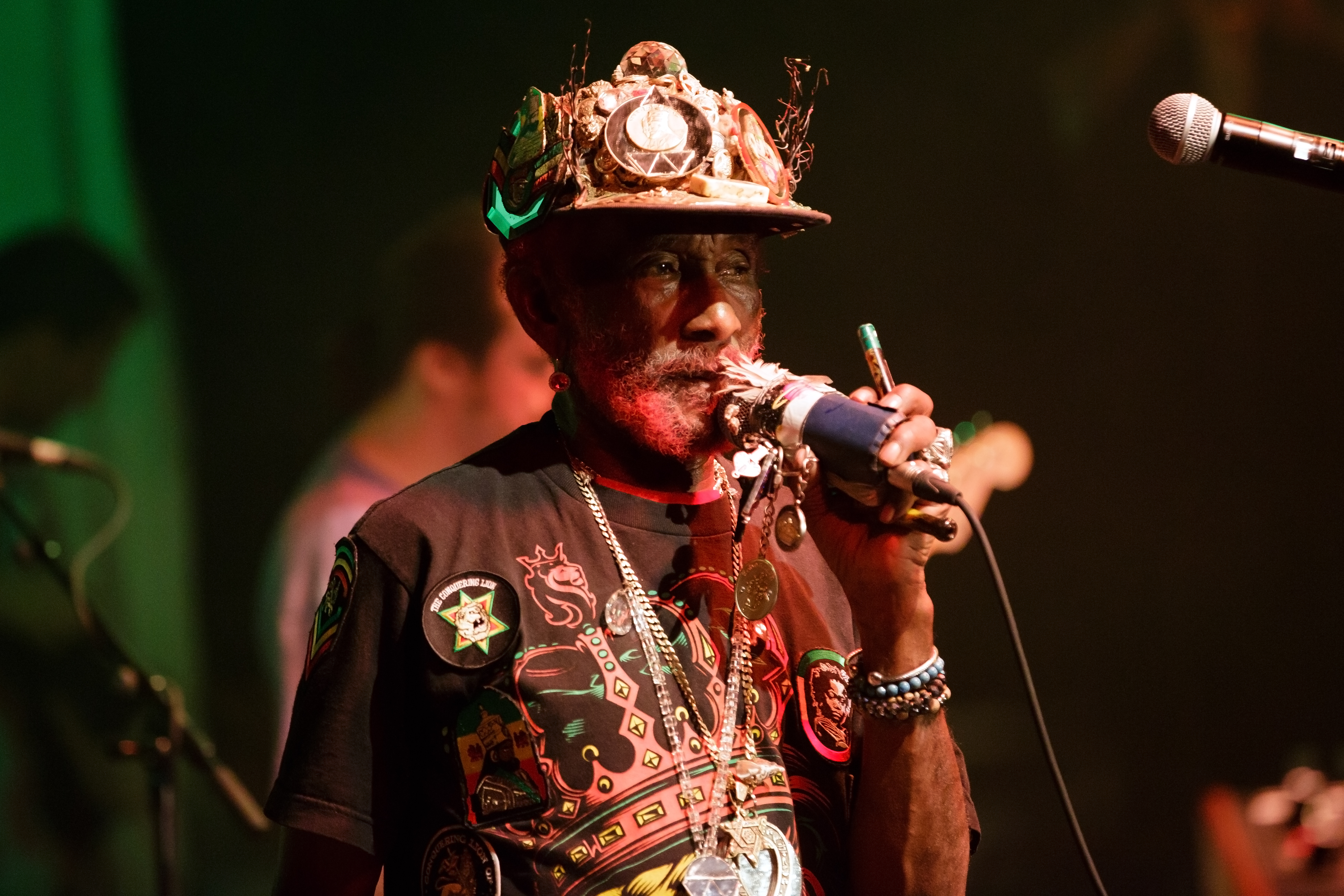 Dubblestandart and Lee "Scratch" Perry at Popfest 2015; Karlsplatz in Vienna, Austria.